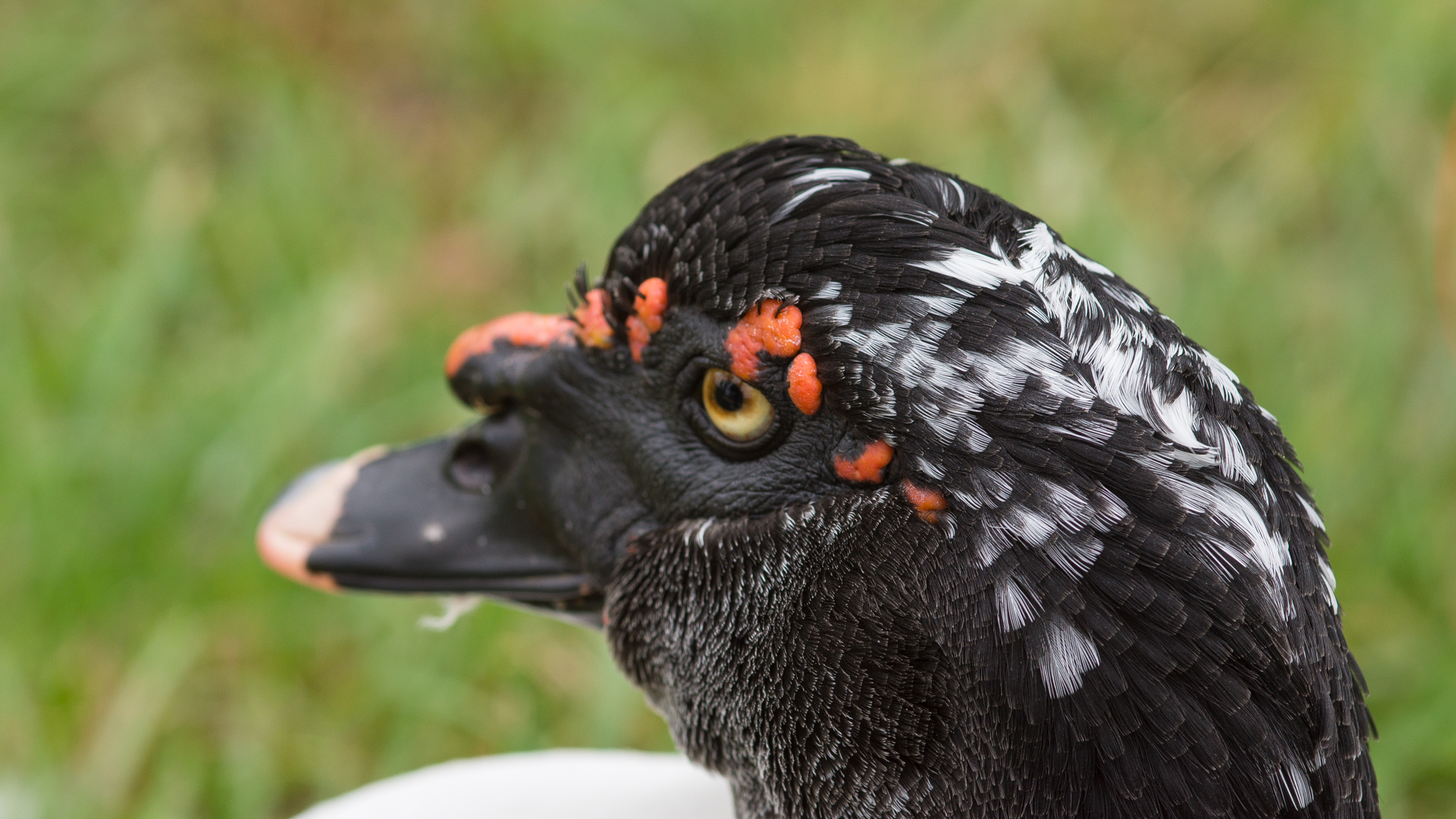 Muscovy duck